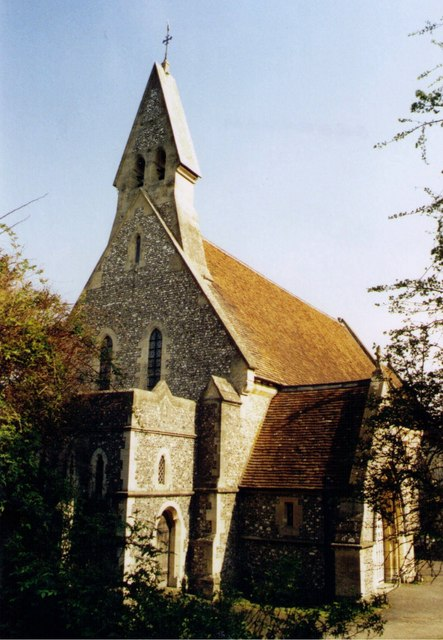 Parish church of St Mary he Virgin, Greenham, Berkshire, seen from the south